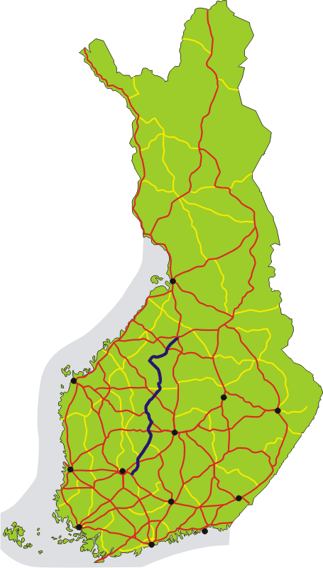 Map of the main road (2nd class) 58 in Finland, shown in dark blue. 1st class main roads (numbers 1–29) are red, other 2nd class main roads (numbers 40–98) yellow. Black dots show the 12 biggest urban areas.